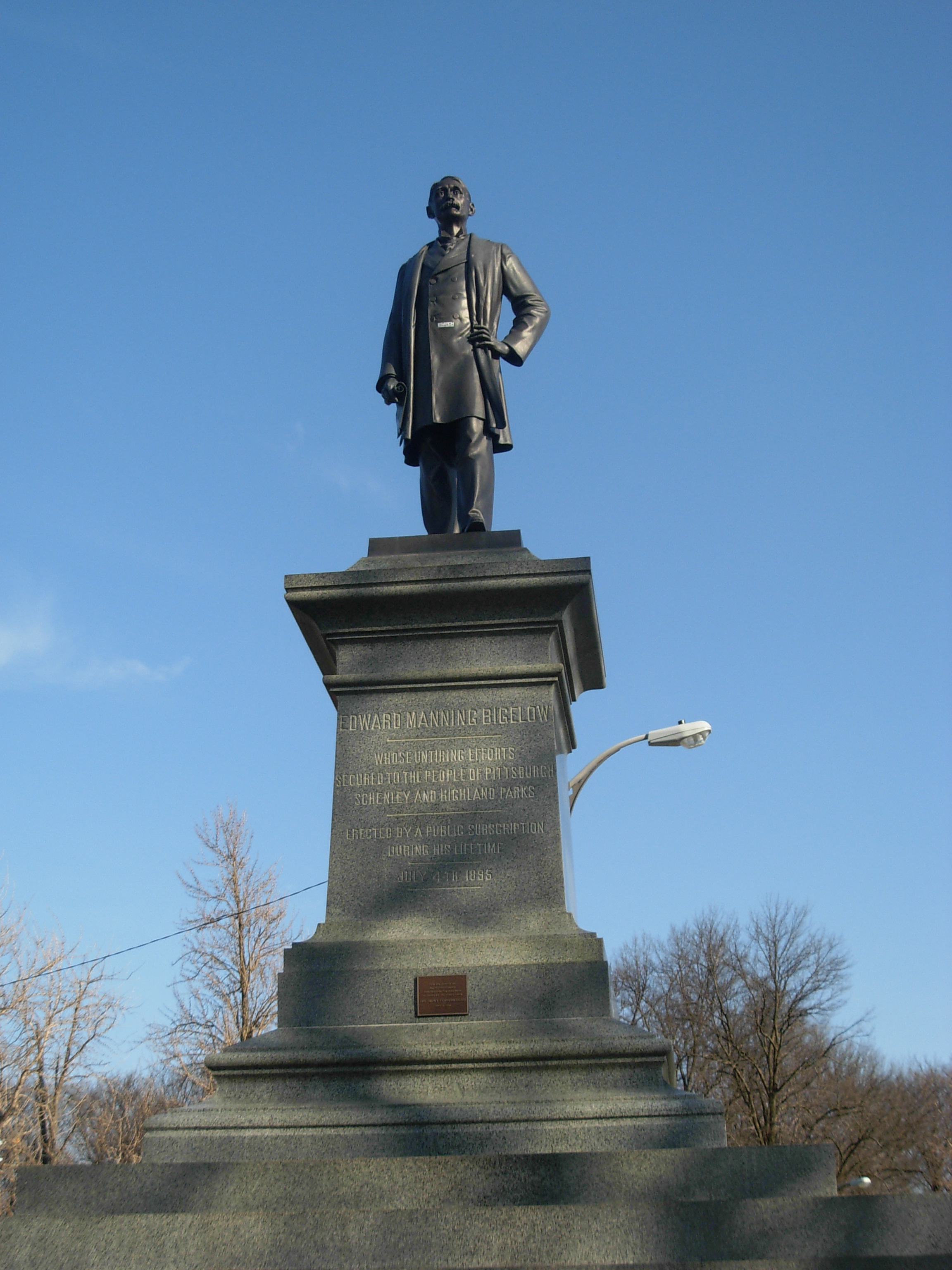 Edward Manning Bigelow monument in Schenley Park. Sculptor: Giuseppe Moretti, 1895. Bigelow was Director of the Pittsburgh Department of Public Works and responsible for creation of the Schenley Park.